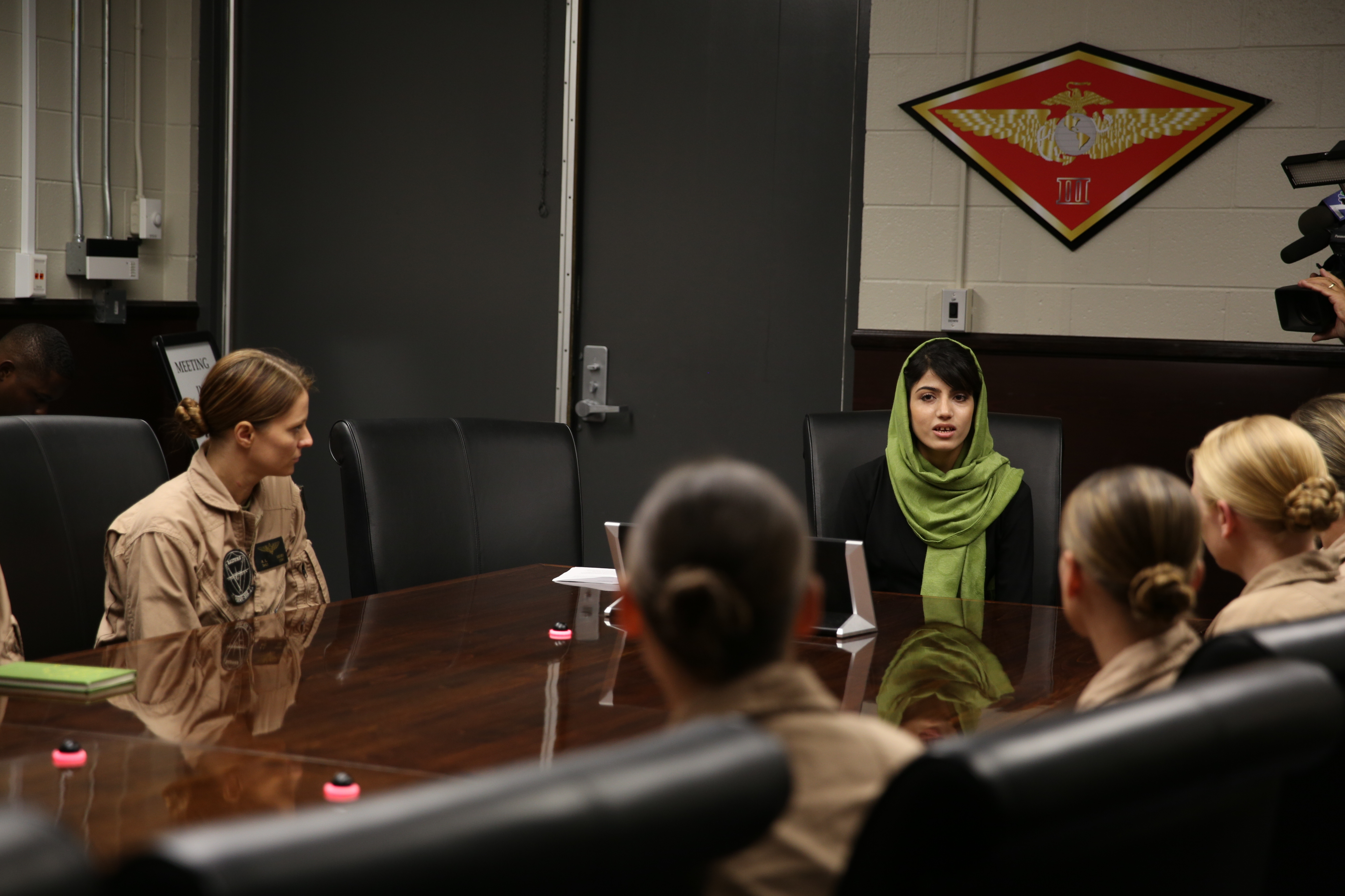 Captain Niloofar Rahmani, the first female fixed-wing pilot in the Afghan Air Force, speaks with female pilots who fly different aircraft aboard Marine Corps Air Station Miramar, Calif., March 9. Rahmani received the 2015 International Women of Courage award by the Department of state for her courage in advocating women’s rights despite personal risk.